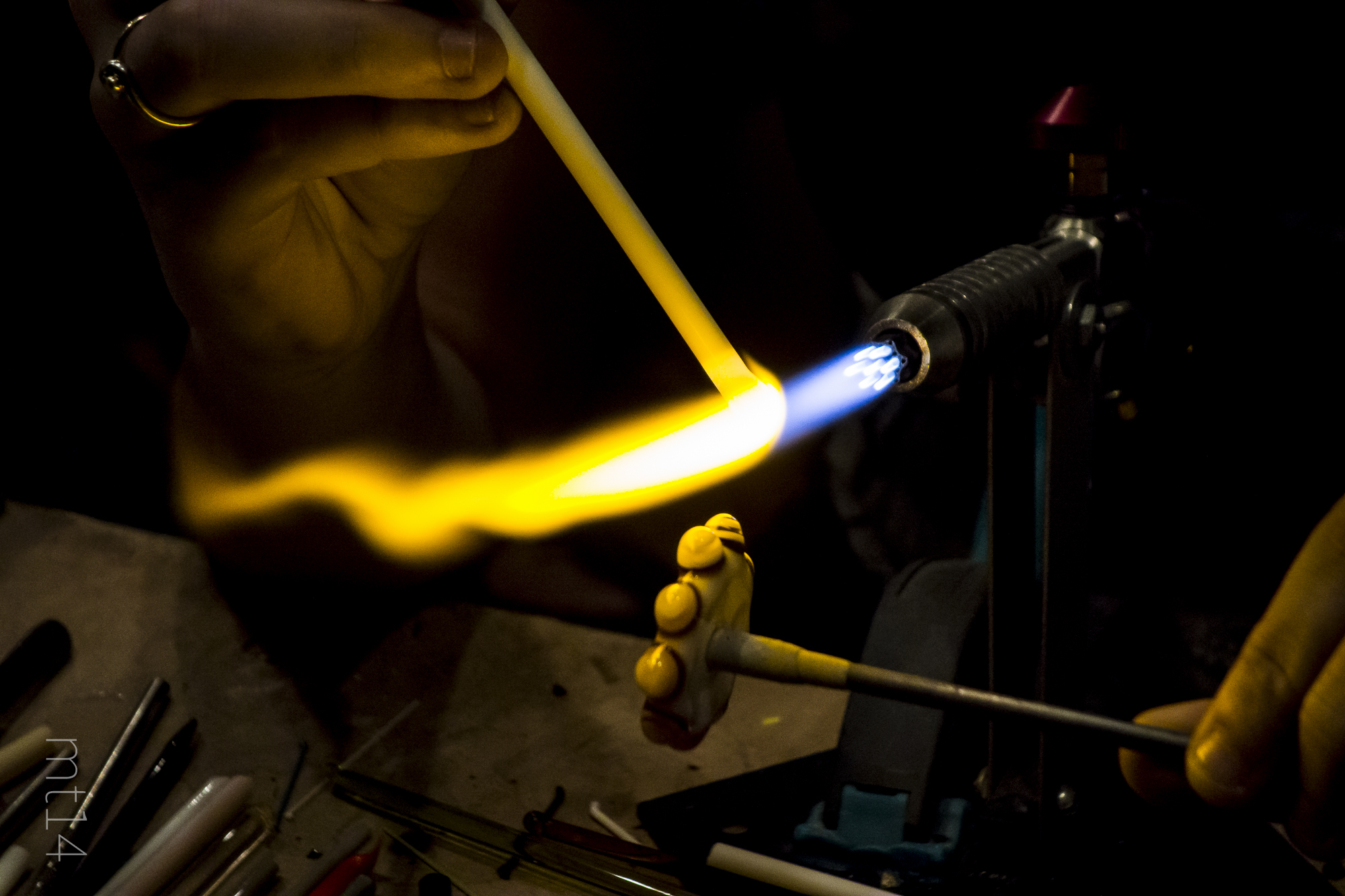 Lampworking with gas torch. Small pendant.